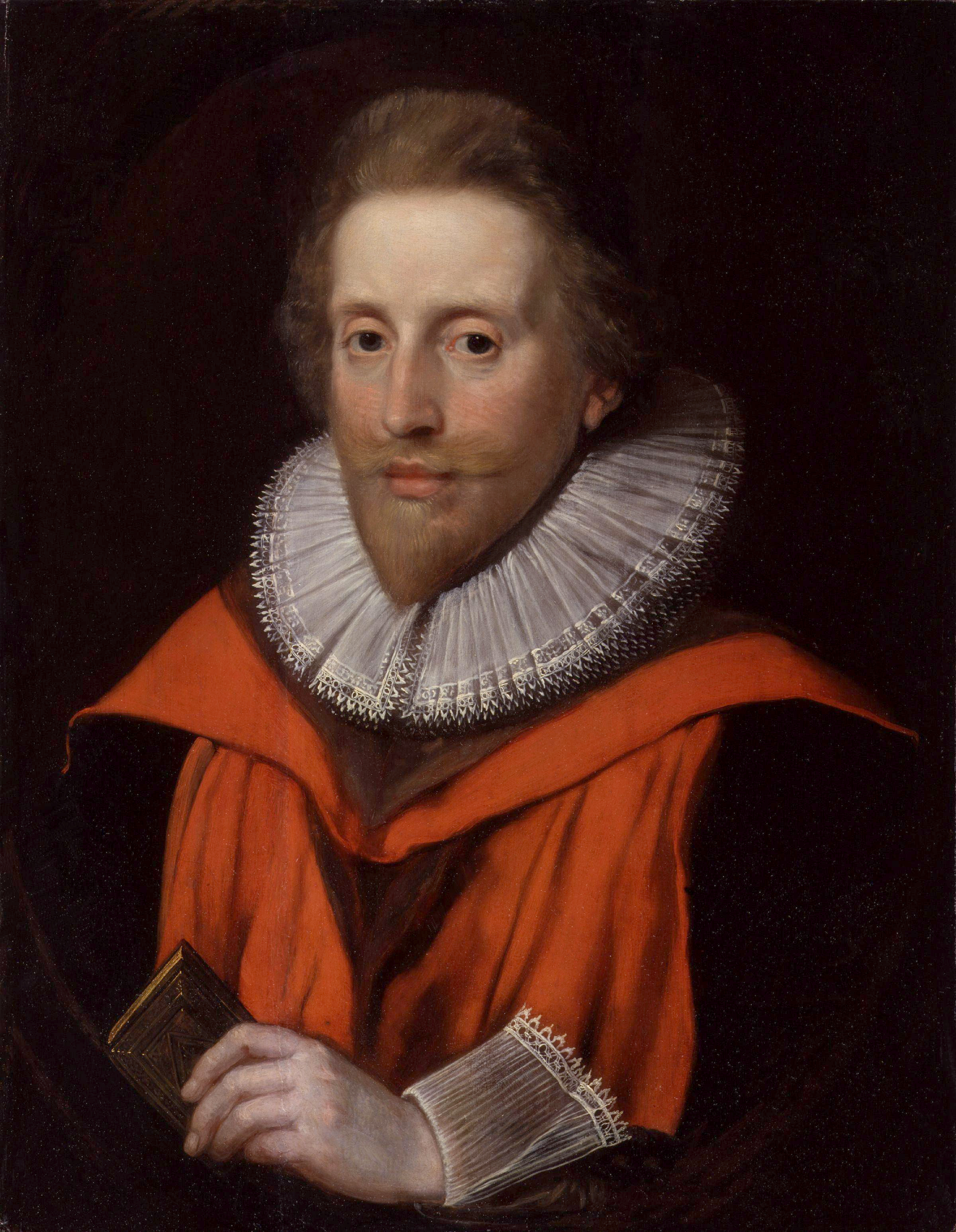 All images in this batch have been confirmed as author died before 1939 according to the official death date listed by the NPG.